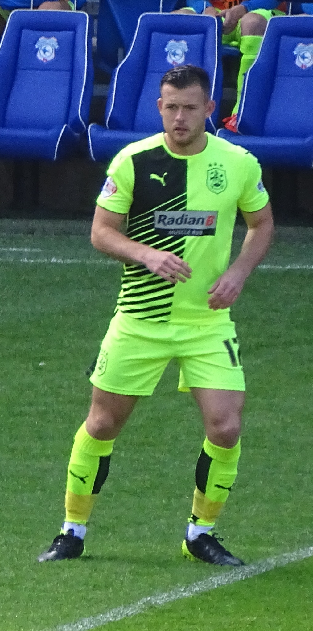 Footballer Harry Bunn in 2015.